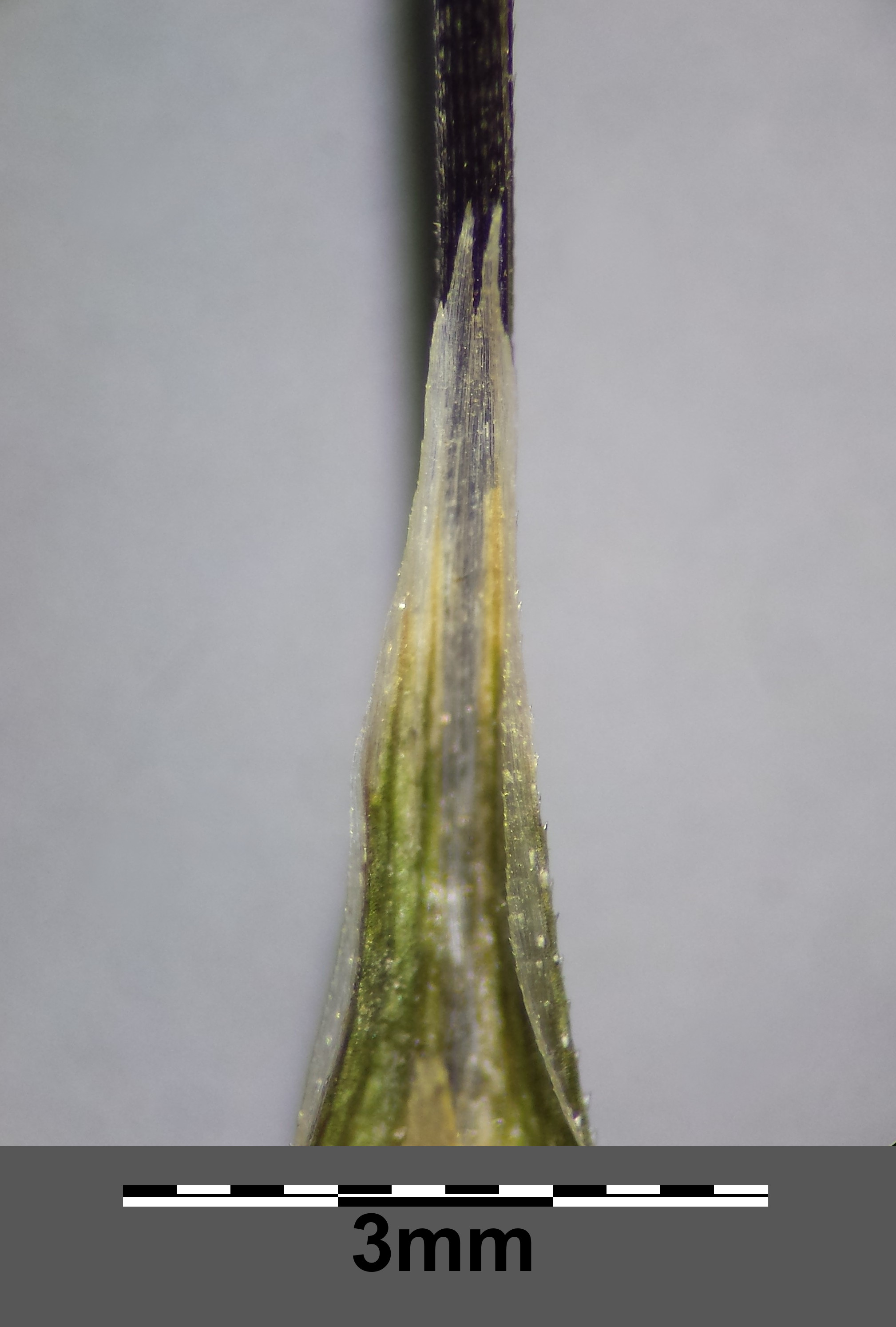 2-dentate lemma Taxonym: Avena fatua ss Fischer et al. EfÖLS 2008 ISBN 978-3-85474-187-9 Location: next to Groß-Jedlersdorf cemetery, Vienna-Floridsdorf - ca. 160 m a.s.l. Habitat: border of a field